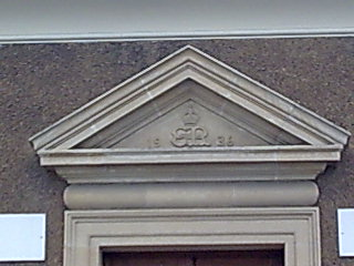 Photo showing cypher of King Edward VIII above the door of Builth's (former) Post Office (now located in local Spar!)